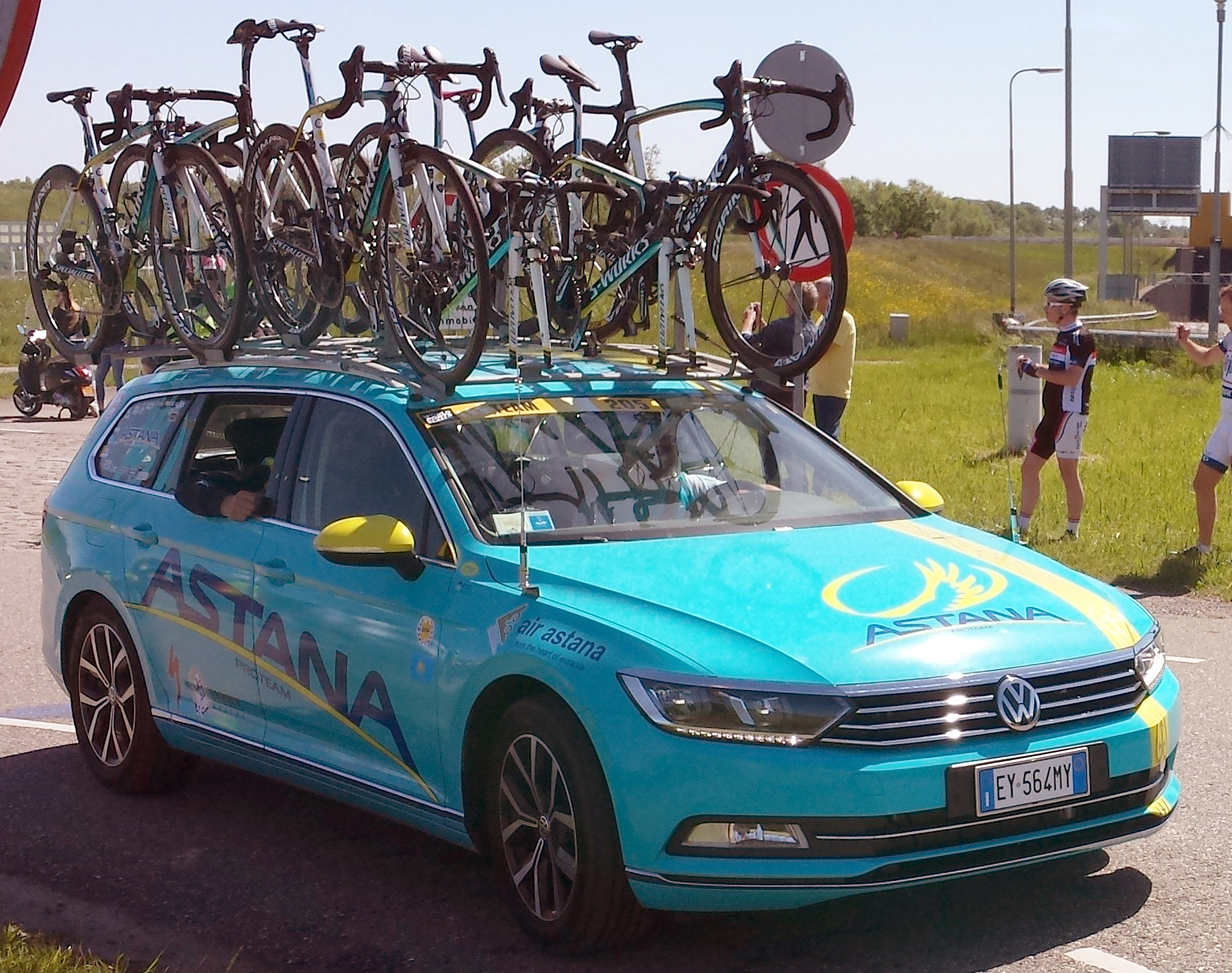 Astana car at the World Ports Classic 2015